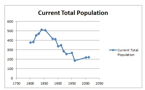 Total population of Stansfield Civil Parish, Suffolk, as reported by the Census of Population from 1801 to 2011.